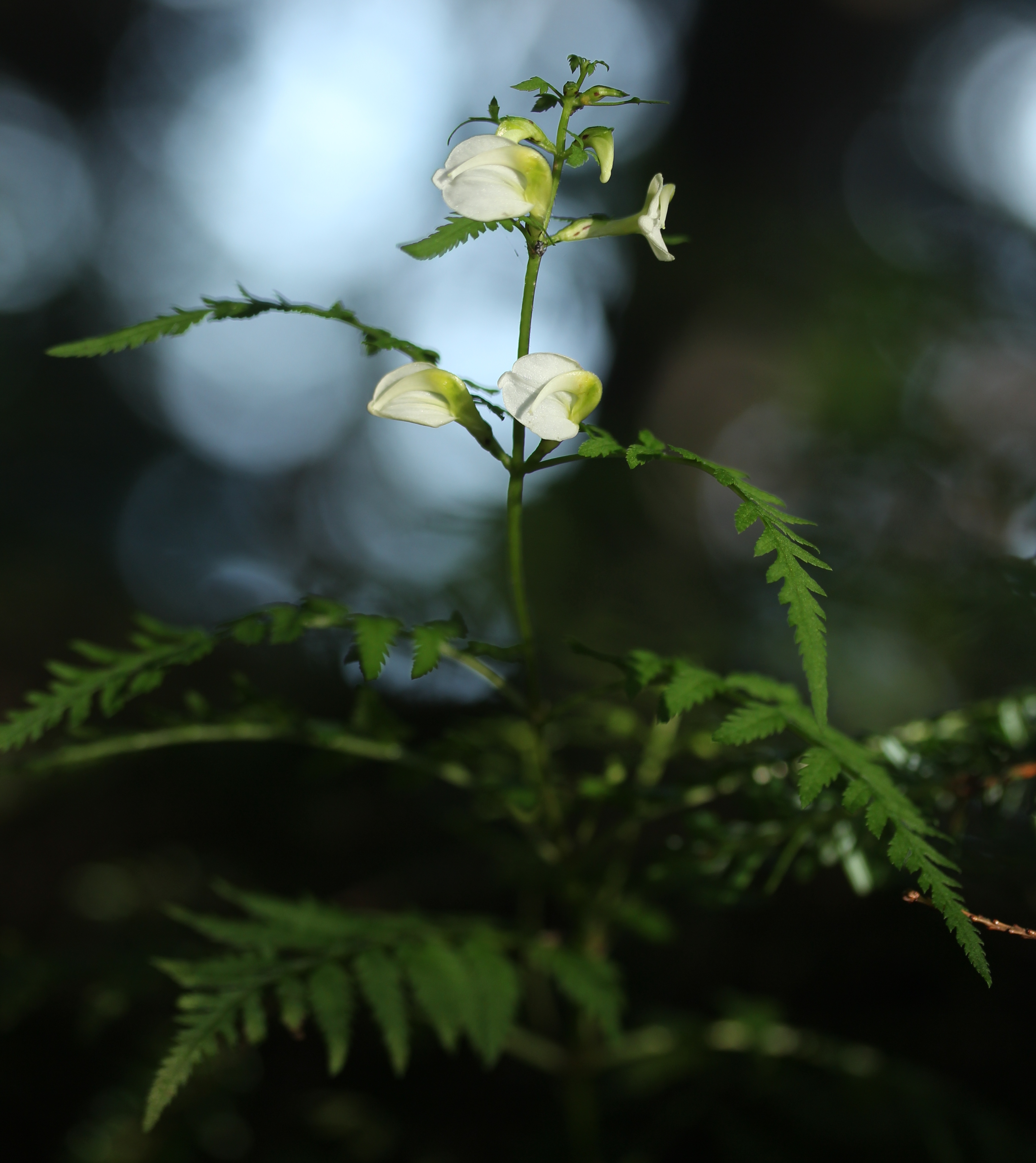 Pedicularis keiskei in Mount Kisokoma, Kiso Mountains, Kiso Town, Nagano Prefecture, Japan.